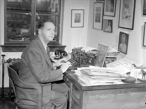 Sports broadcaster Foster Hewitt in his office